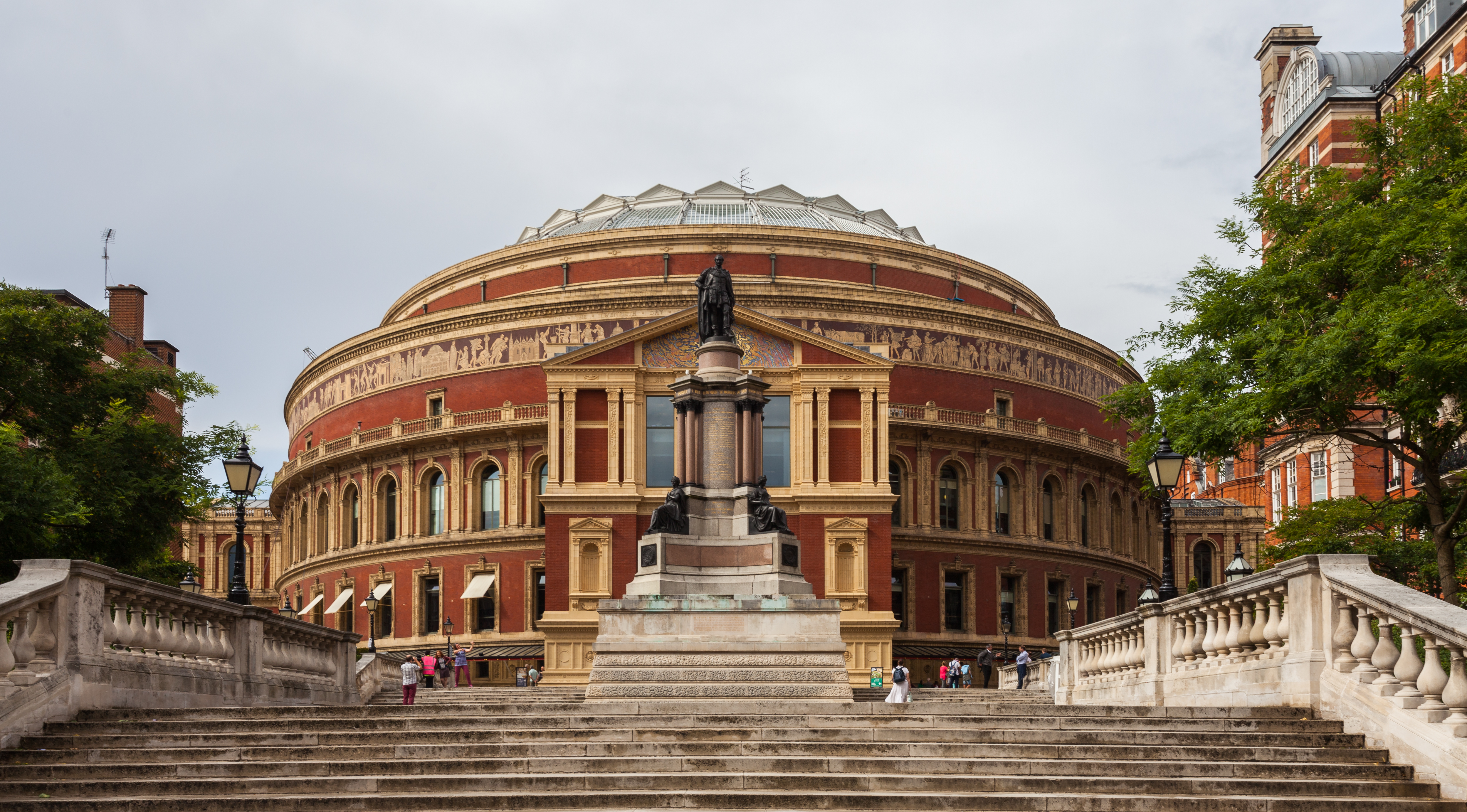 Royal Albert Hall, London, England